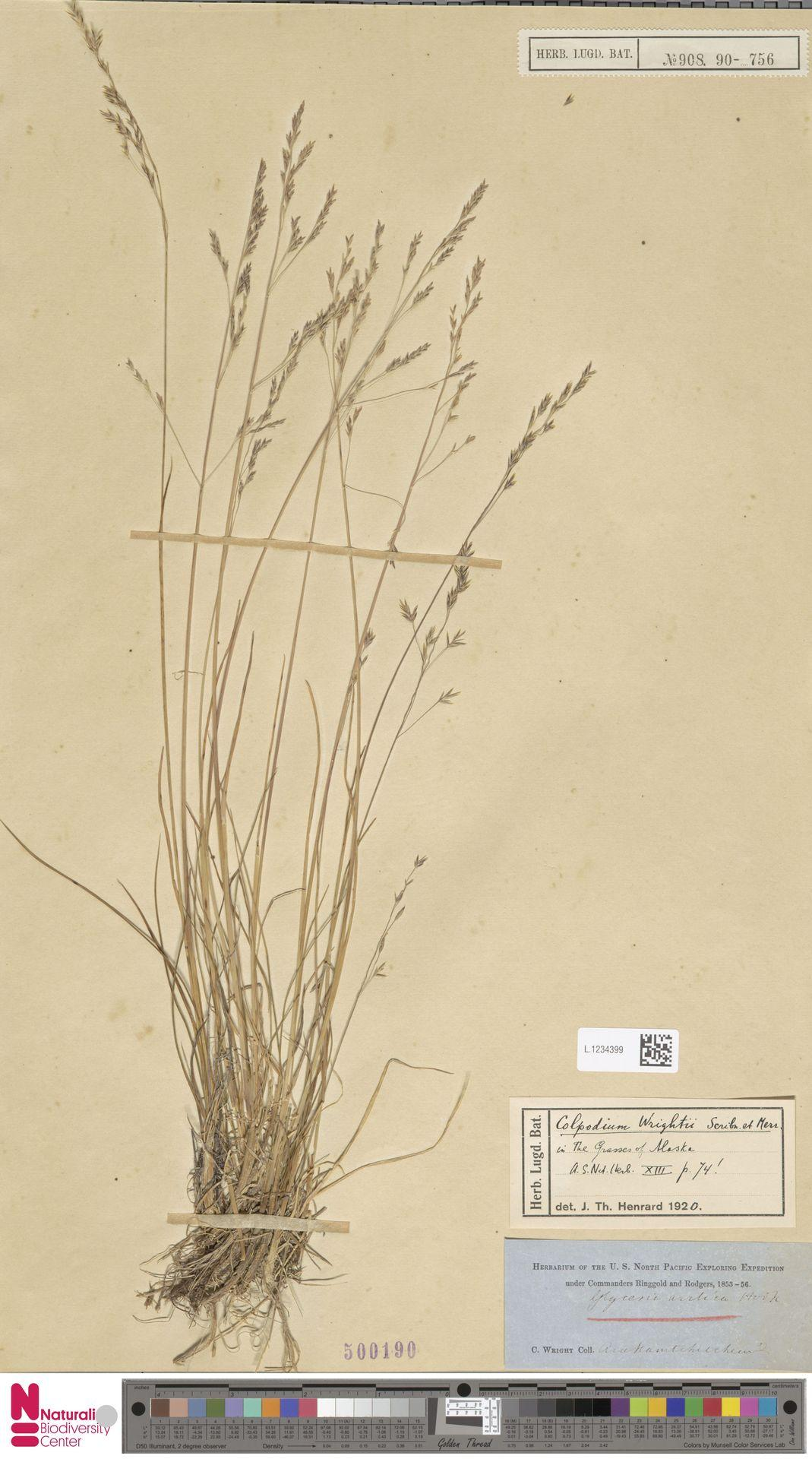 Colpodium wrightii Scribn. and Merr. (type of) - Colpodium wrightii Scribn. and Merr. (species)